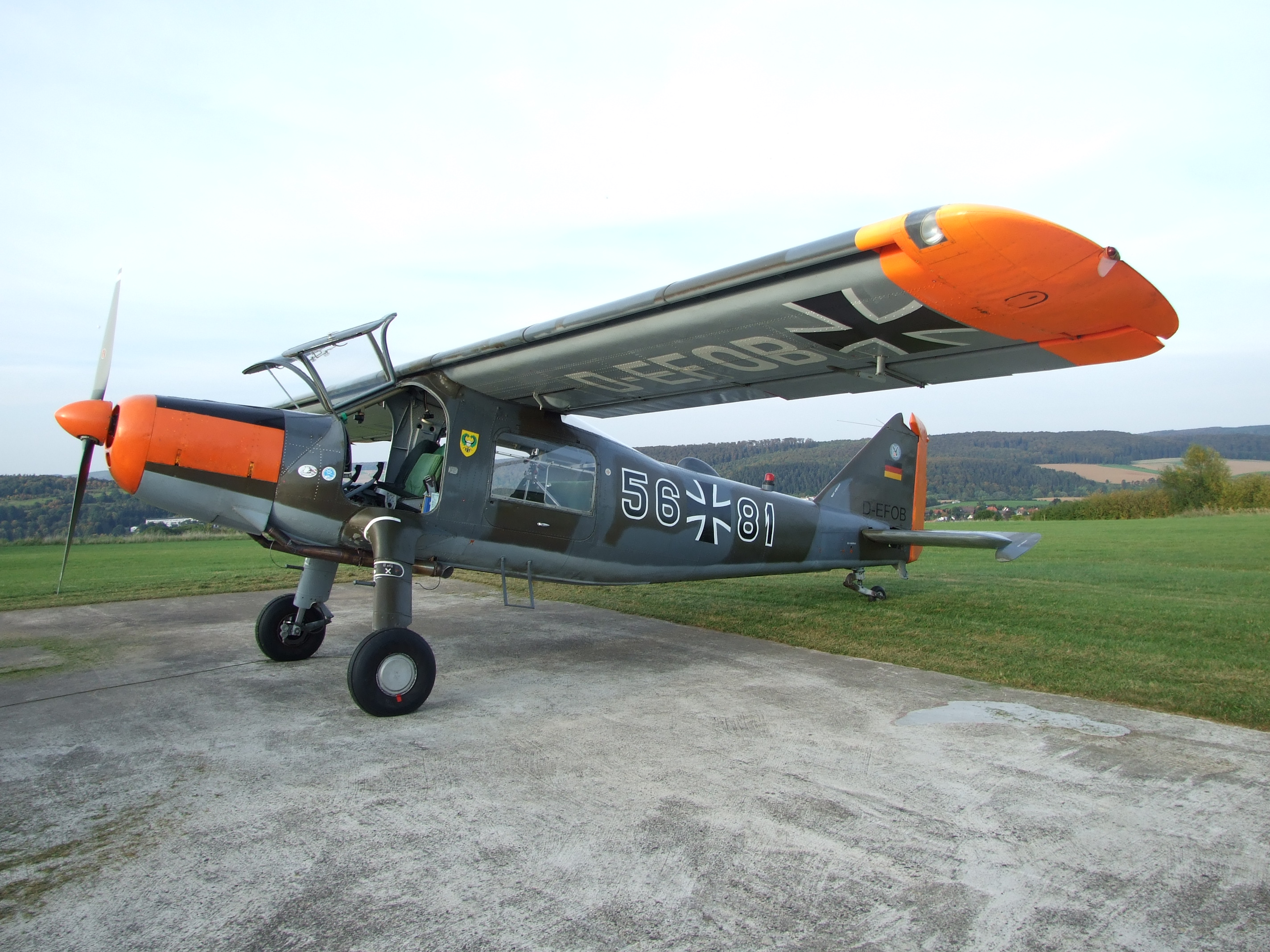 Dornier DO 27 A4 with civil licence number "D-EFOB", original painting and german military licence number "56+81" at Bad Gandersheim airport built in 1959 length: 9.6 m wingspan: 12 m height: 3.5 m seats: 6 max. takeoff weight: 1,850 kg